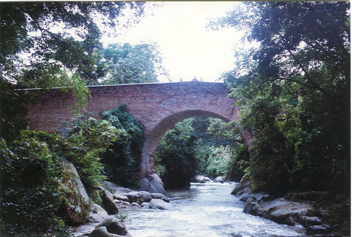 Bridge over the Pichigual River in Candelaria, a city/municipality in the Honduran department of Lempira.